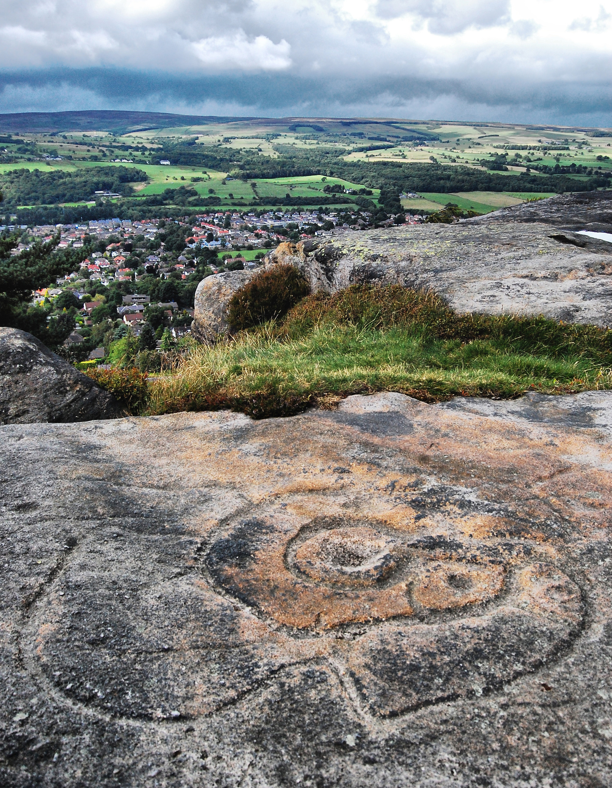 These "Cup and Ring marks", seen here in Hangingstones Quarry above Ilkley, can be found on many stones in the area. They are estimated to have been created around the time of the Bronze Age, some three to four thousand years ago.